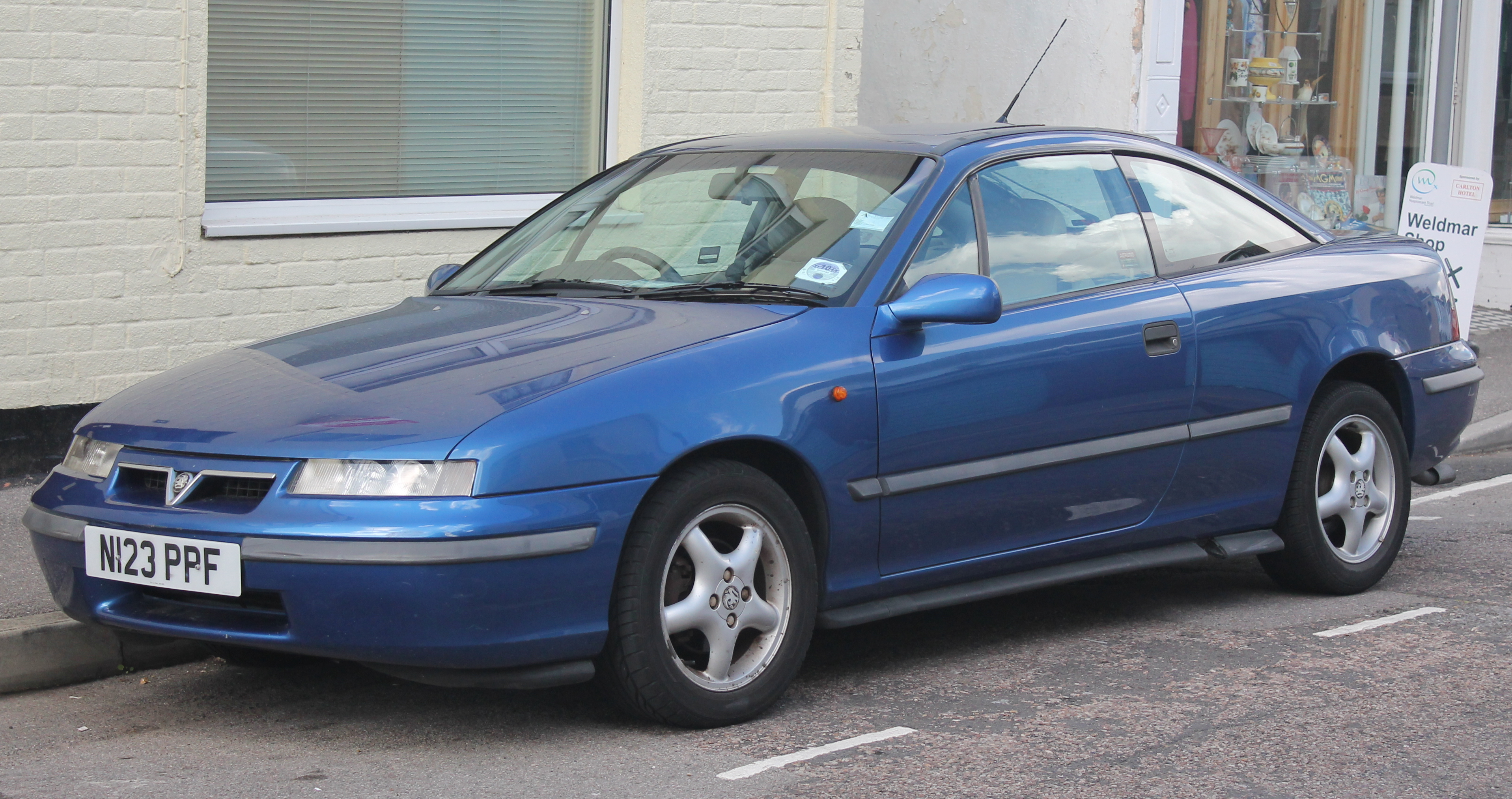 Quite interesting cars